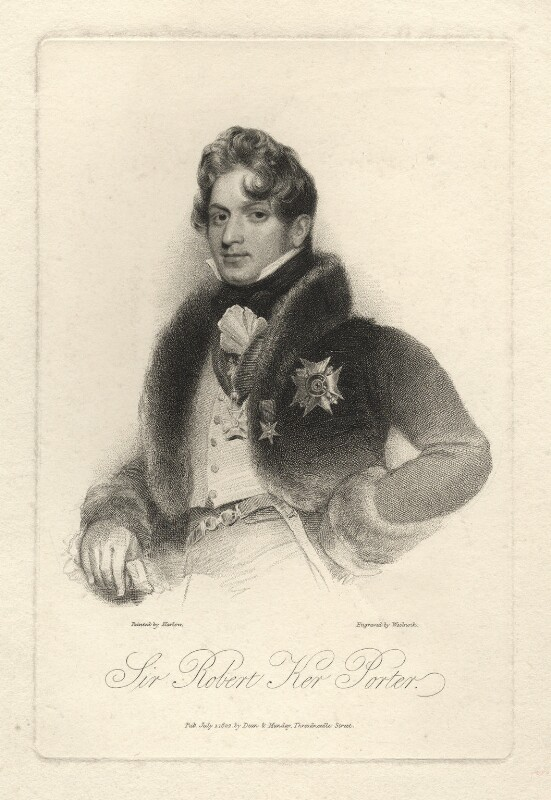 Portrait of Robert Ker Porter (1777–1842) an English artist, author, diplomat and traveller.